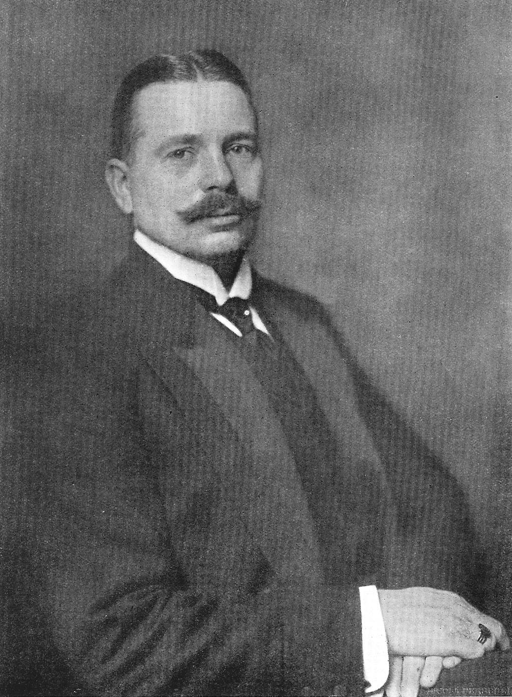 Eric Adolf Hallin